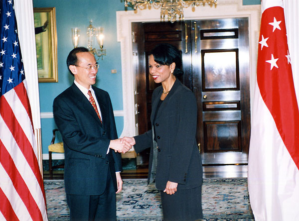 The Minister for Foreign Affairs of Singapore George Yeo with United States Secretary of State Condoleezza Rice in the Treaty Room of the White House, Washington, D.C.